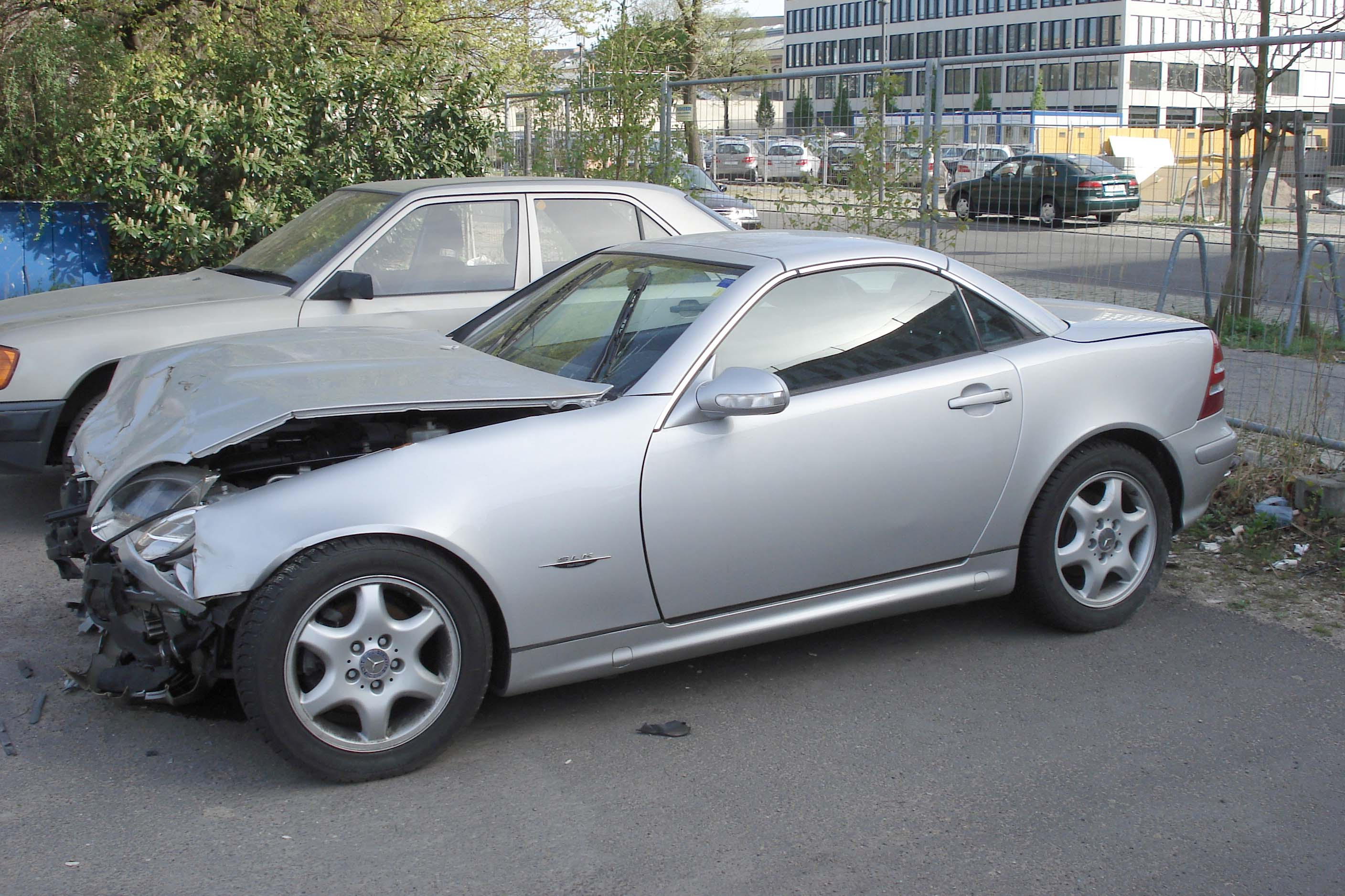 Crashed Mercedes SLK